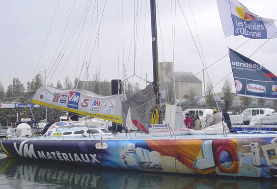 The IMOCA sailboat VM Matériaux at the start of the 2004 edition of the Vendée Globe. Les Sables d'Olonne, France.